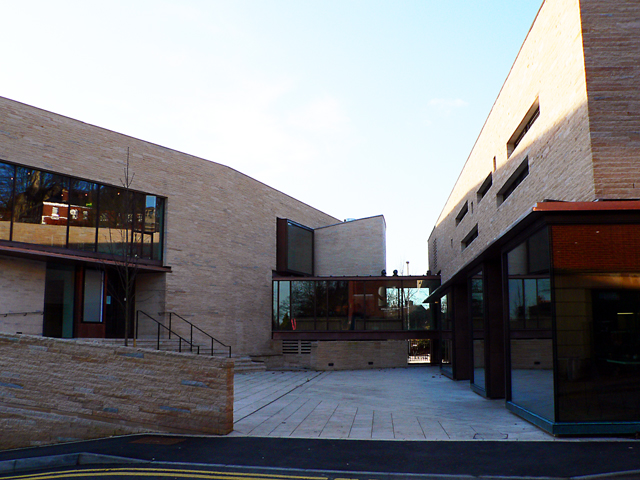 The Collection. Lincoln's newest museum opened in 2005 Displays include Roman remains unearthed during the building's construction.